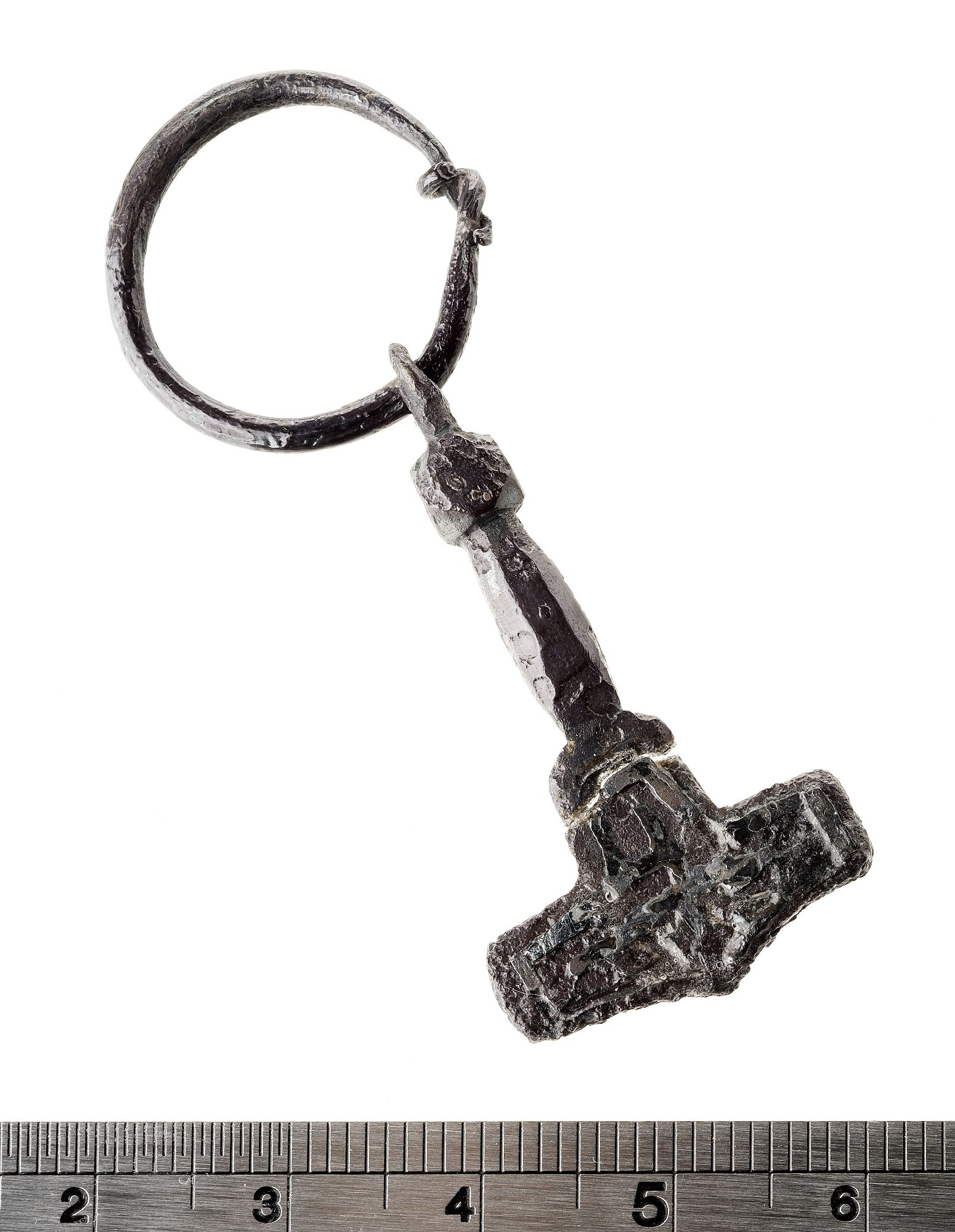 Silver Thor's hammer (Mjöllnir) pendant from a chamber-grave in Birka, Sweden